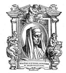 Illustratio from "Le Vite" by Giorgio Vasari, edition of 1568. For the artist portrayed see filename